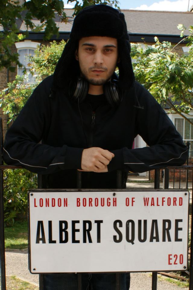 Eastenders Albert Square image